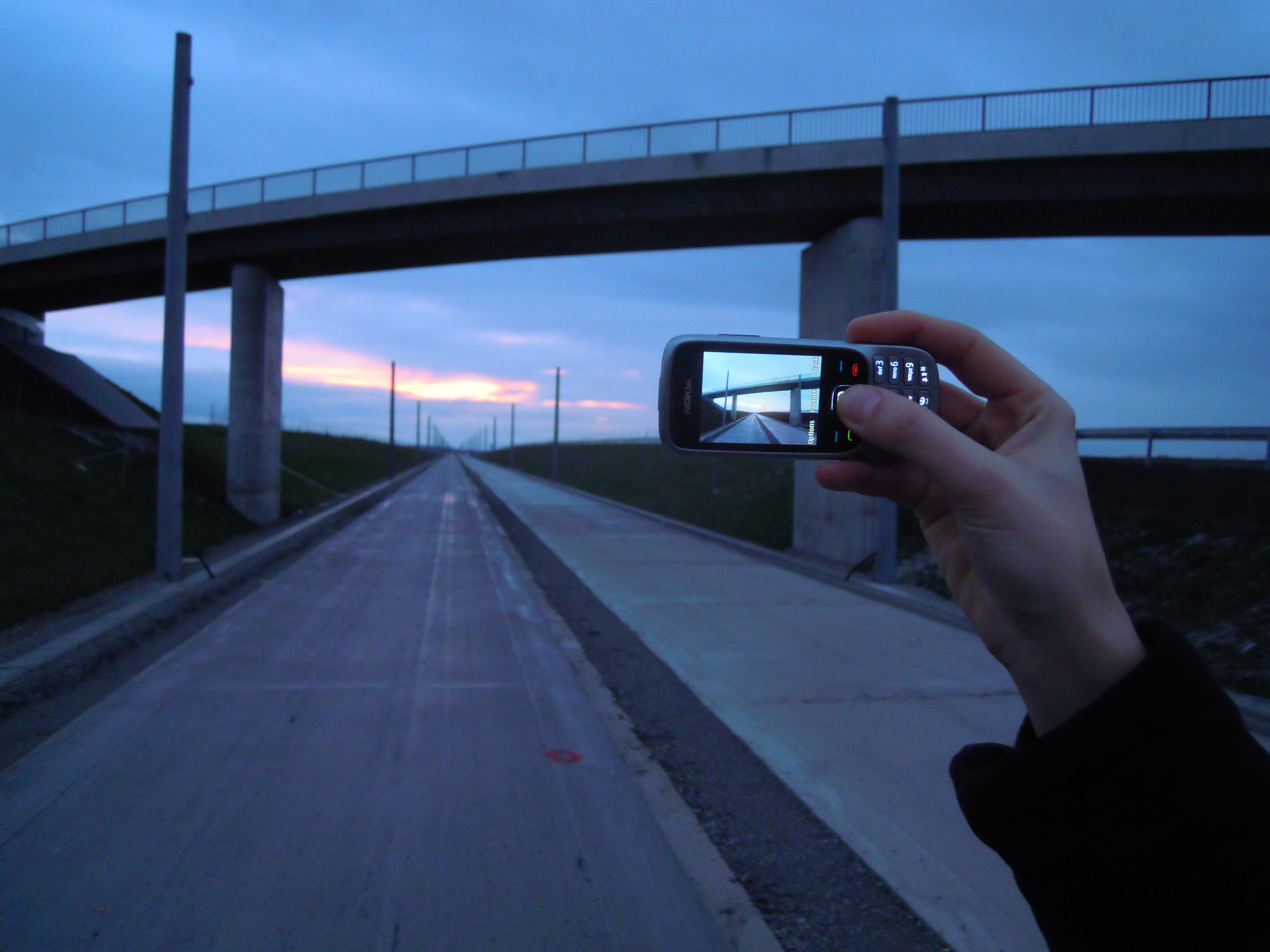 using a mobile phone to create an image of the outer world - on the future train track Munich–Berlin, near Essleben (Thuringia, Germany)